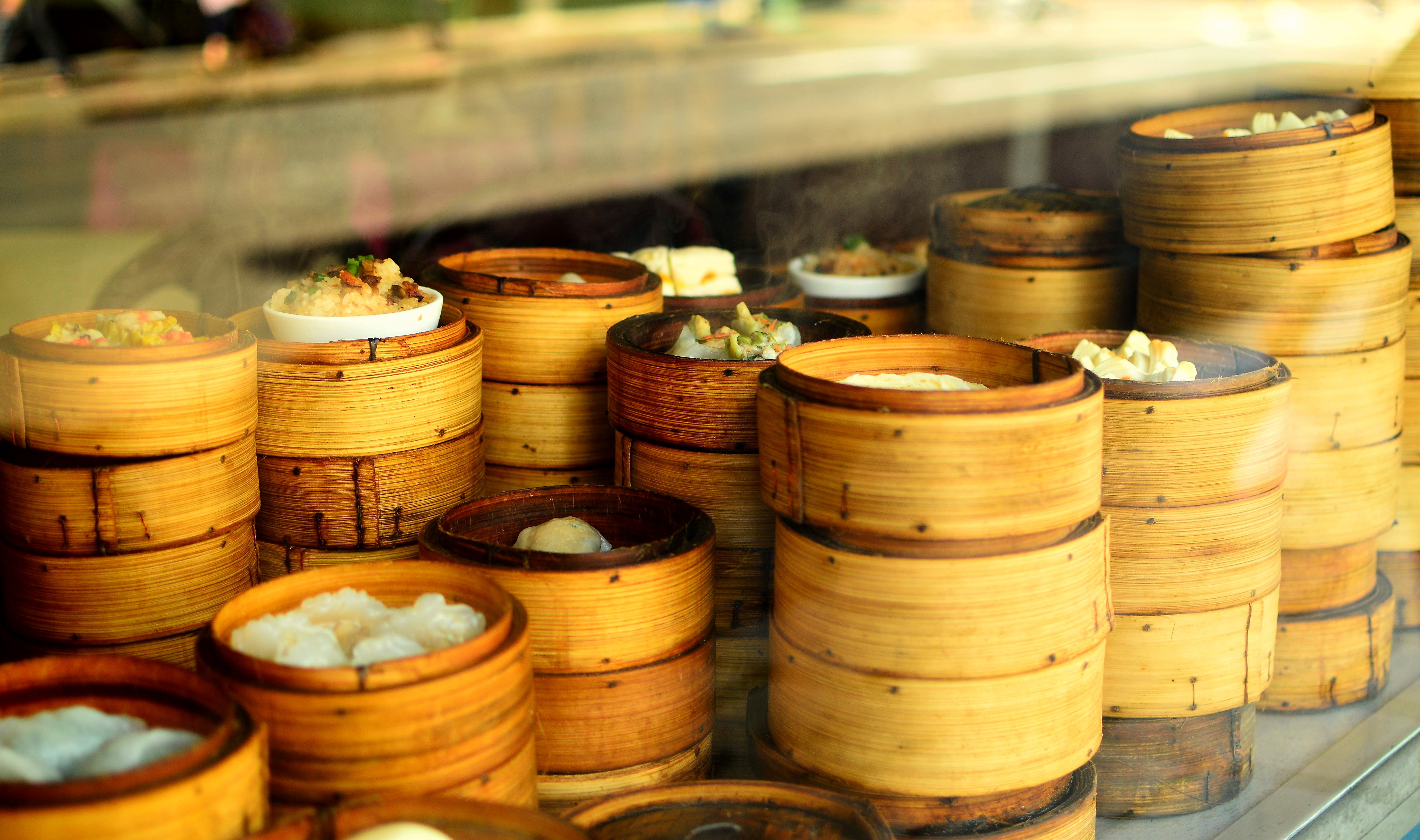 A lot of dimsum in chinese restaurant